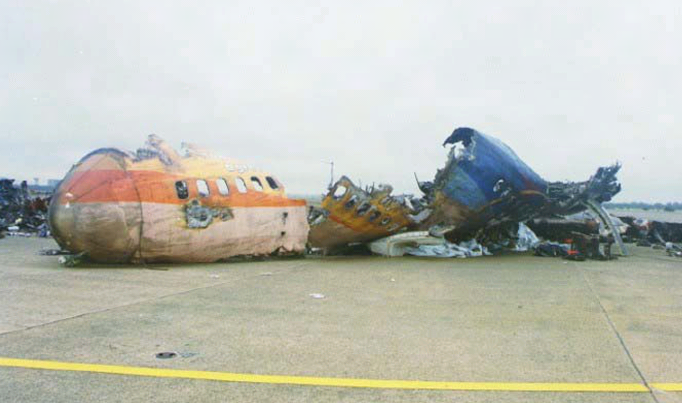 Flight 006 collided with the construction equipment that was parked on a closed runway, killing 83 of the 179 onboard and injuring a further 71 people.